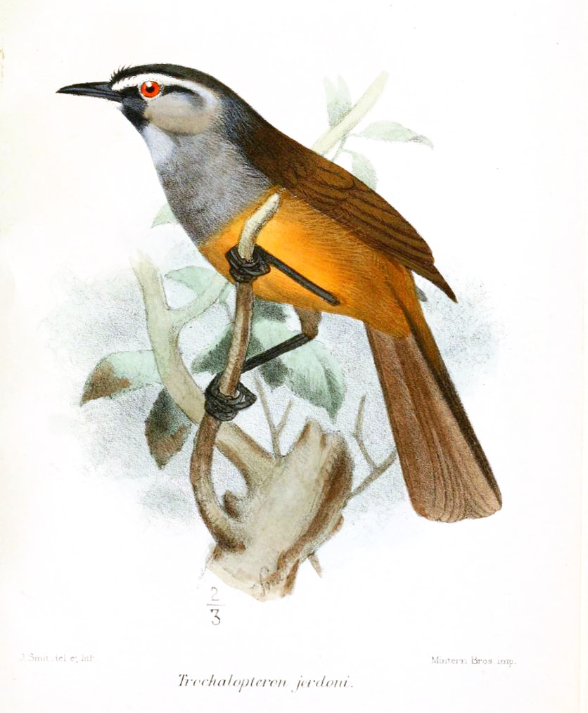 Trochalopteron jerdoni = Trochalopteron cachinnans, Rufous-breasted Laughingthrush